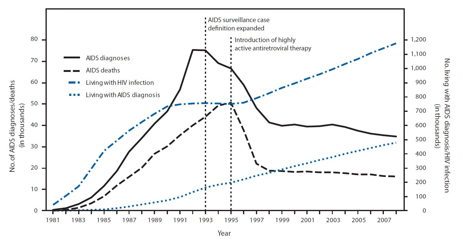 This is a CDC graph showing annual deaths, new infections, and number living with HIV from 1981-2008. From